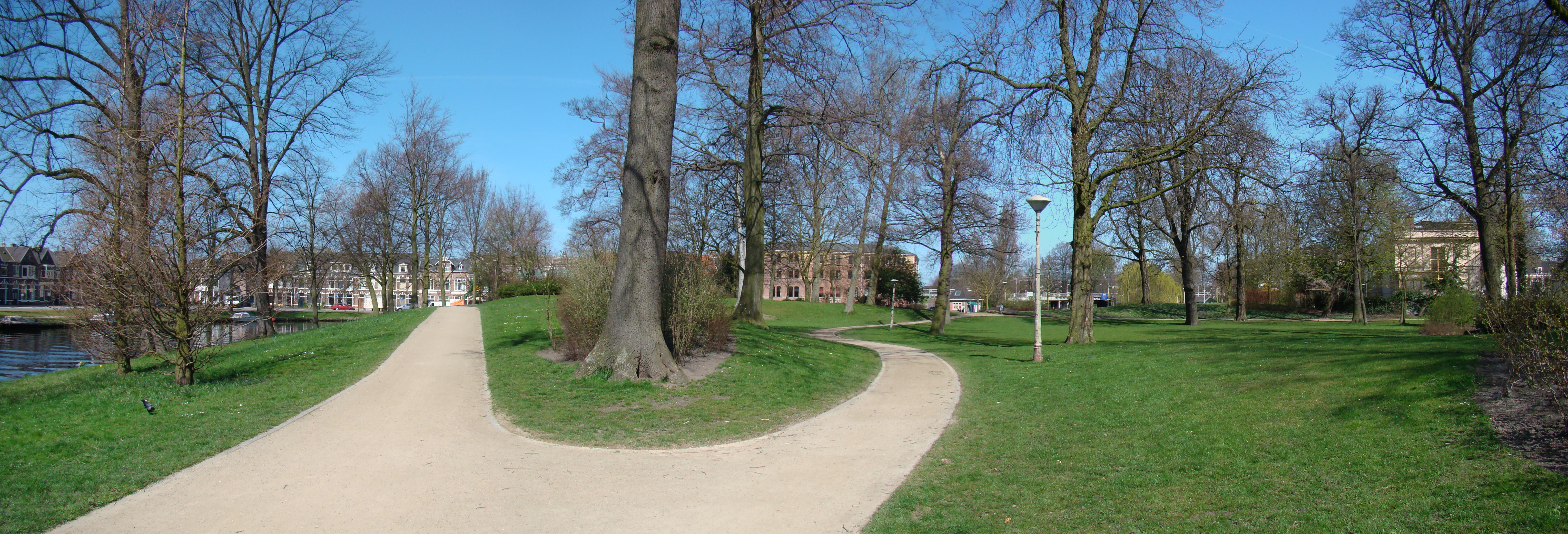 Kenaupark at Haarlem, Netherlands